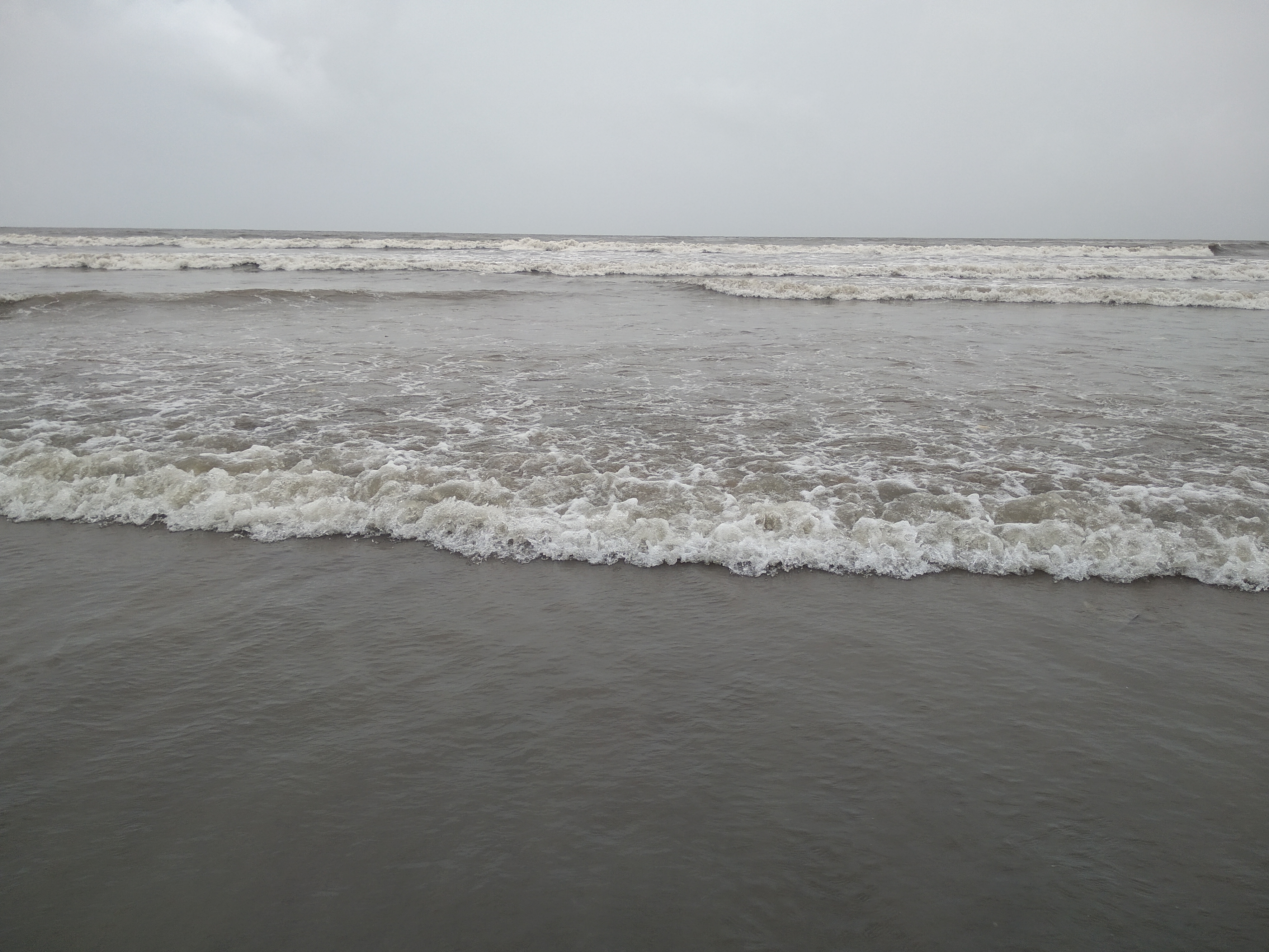 This photograph is captured at morning on Juhu beach. It shows waves of sea.